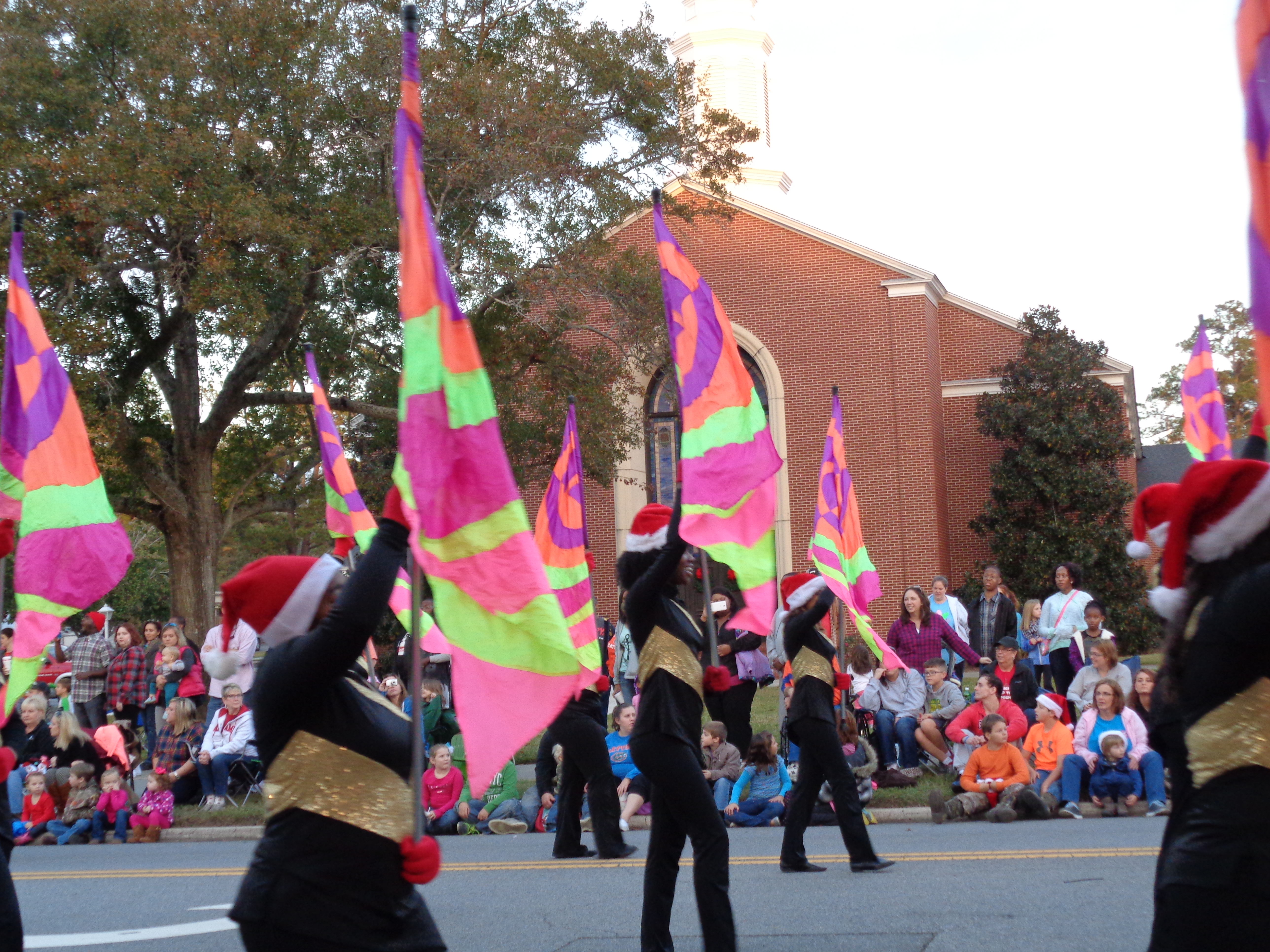 Valdosta High School Marchin' Cats at the 2015 Greater Valdosta Community Christmas Parade, Valdosta, Lowndes County, Georgia